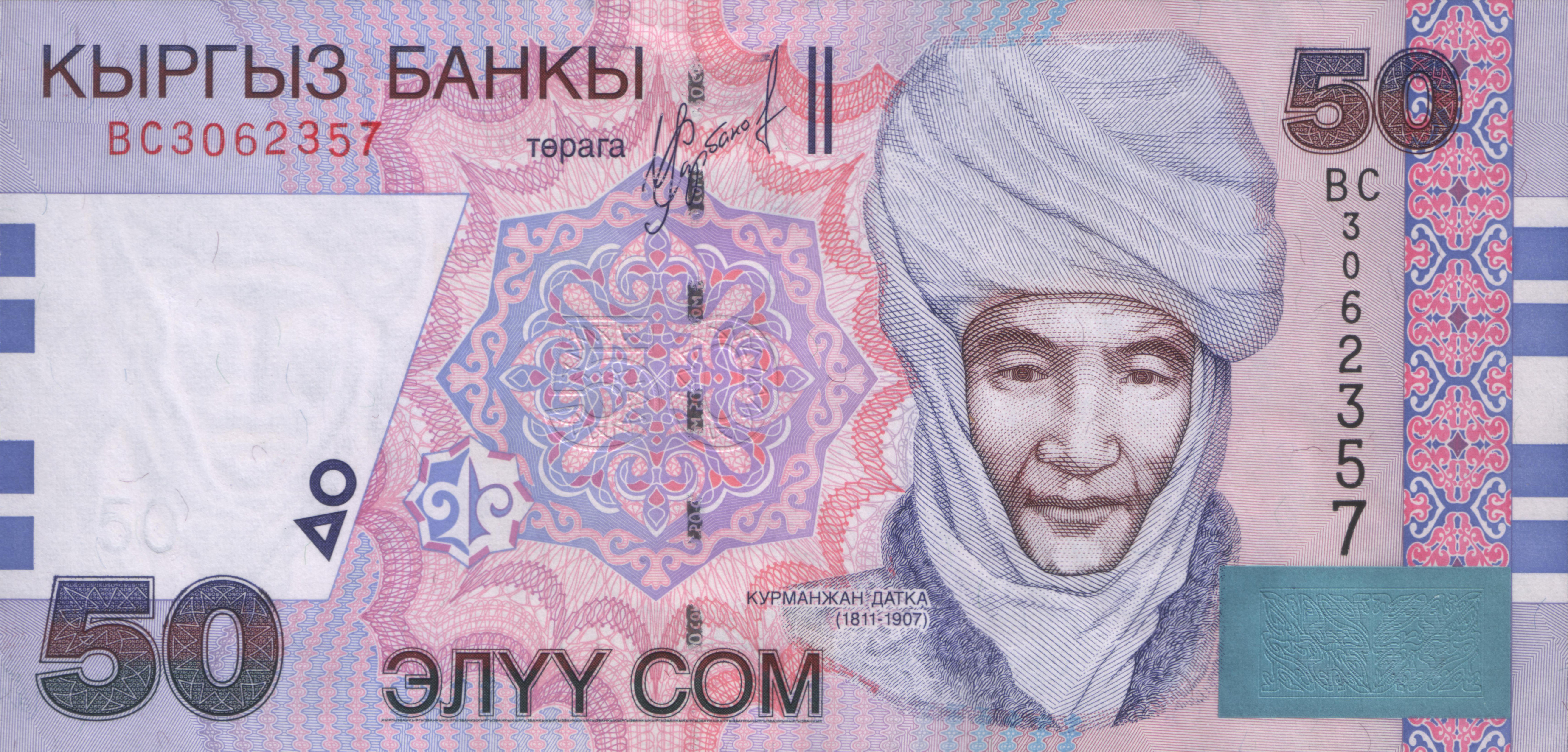 50 som of Kyrgyzstan (2002)